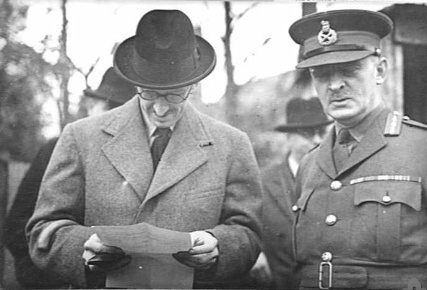 Major General H. D. Wynter with the Dominions Secretary, Lord Cranborne